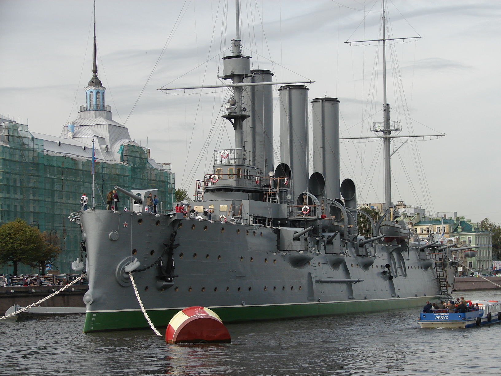 A photo of the cruiser Aurora, now serving as a museum, in St. Petersburg, Russia. Shot taken from an excursion boat.